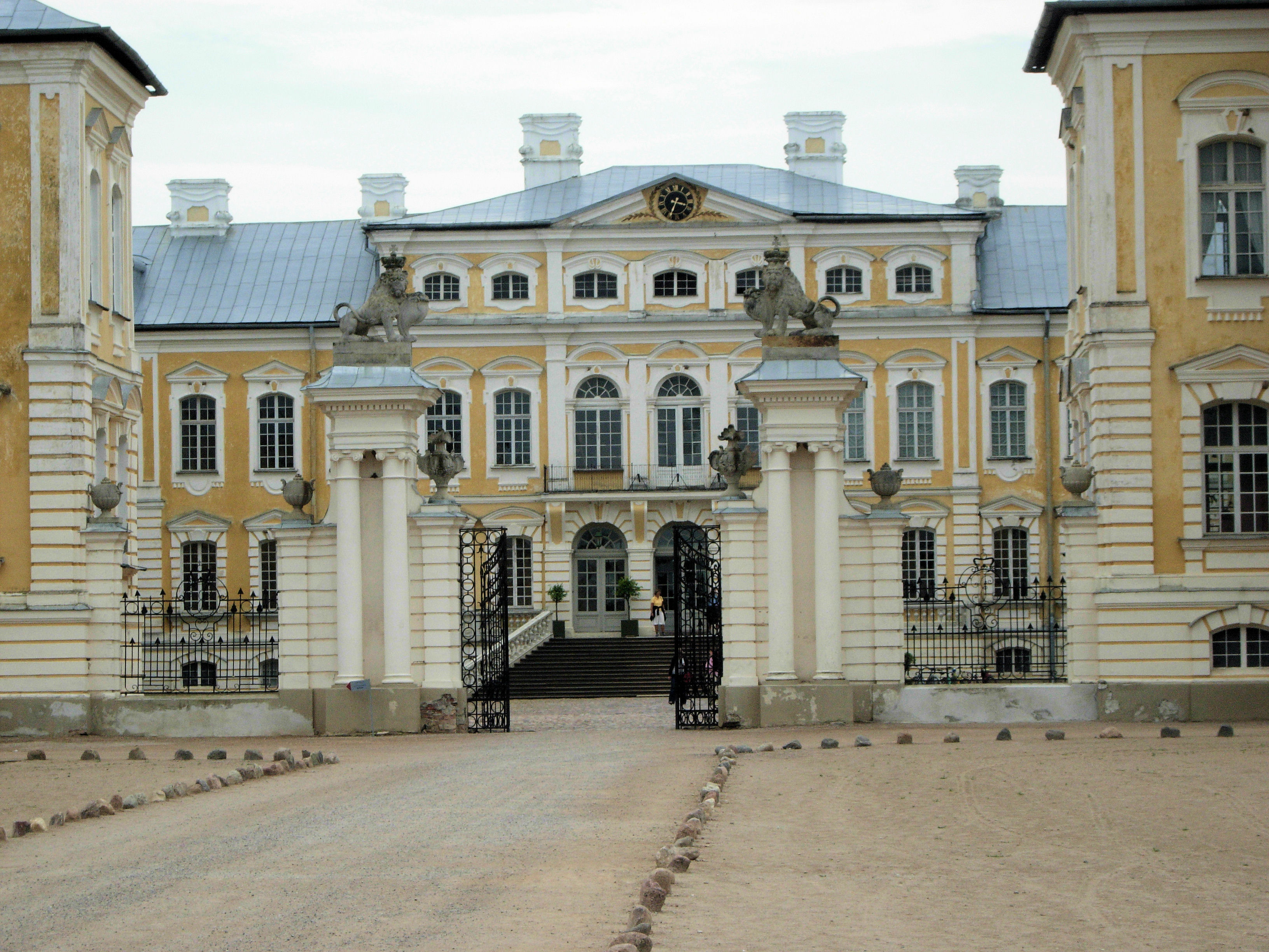 Rundalen palace in Latvien